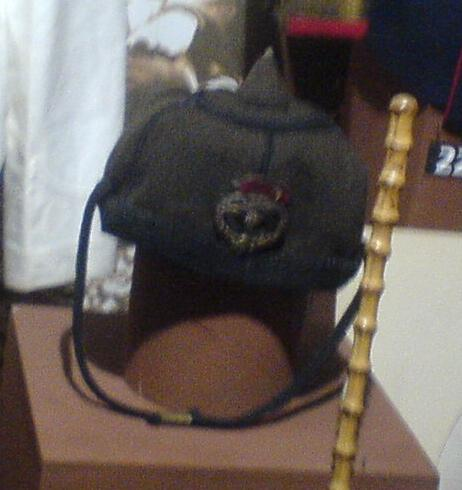 IMRO uniform hat with badge, from National milittary-history museum Sofia, Bulgaria